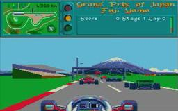 Screenshot from the french video game Vroom. Game developed and published by Daniel Macré and the Lankhor company in 1991.